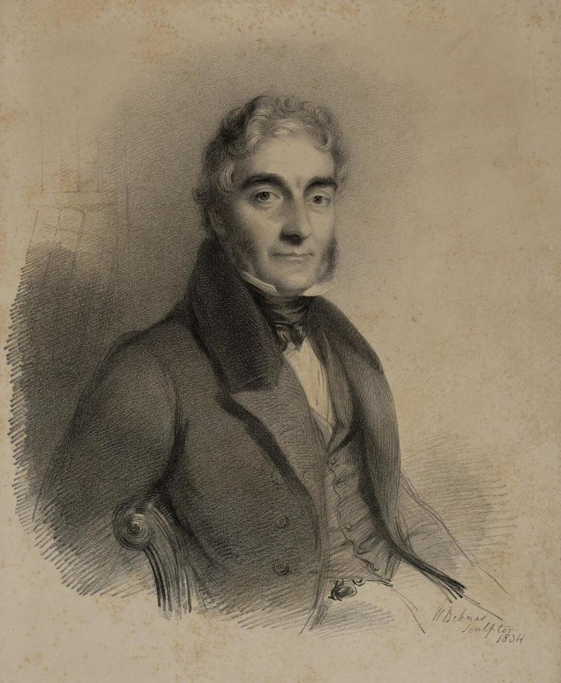 A portrait from the Welsh Portrait Collection at the National Library of Wales. Depicted person: Benjamin Travers – British surgeon